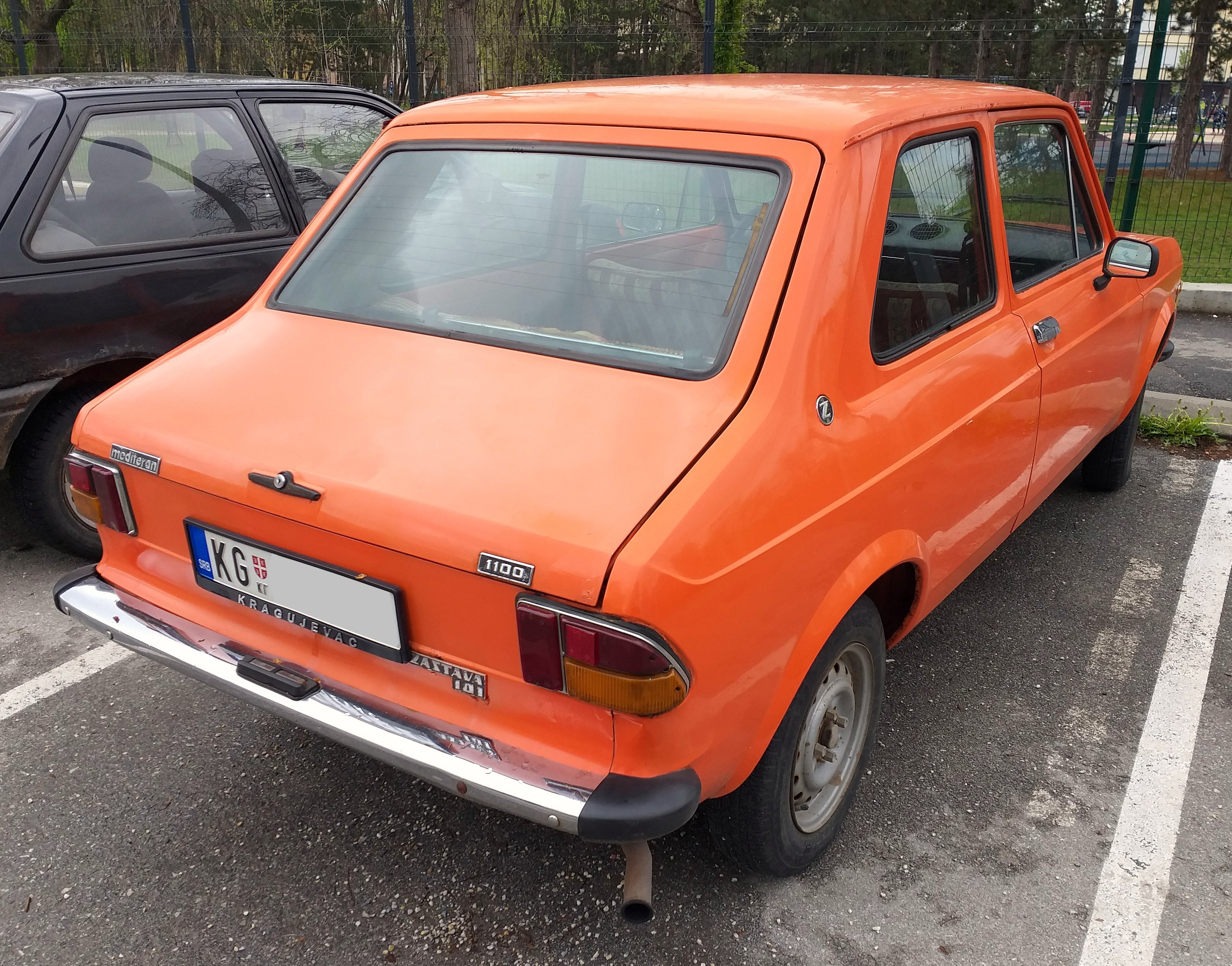 Zastava 101 1100 Mediteran